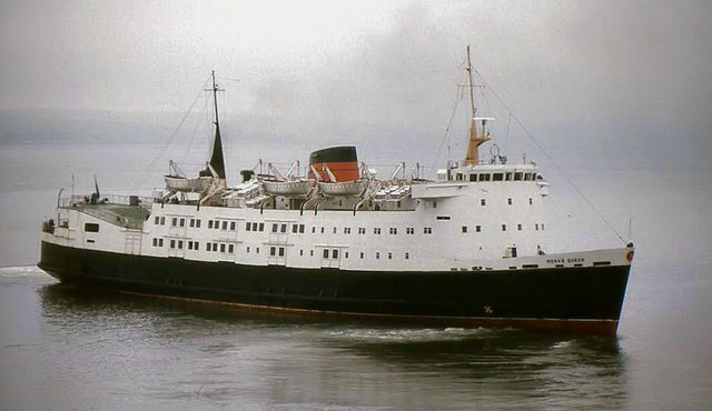 Isle of Man ferry Mona's Queen departing Stranraer for Douglas.